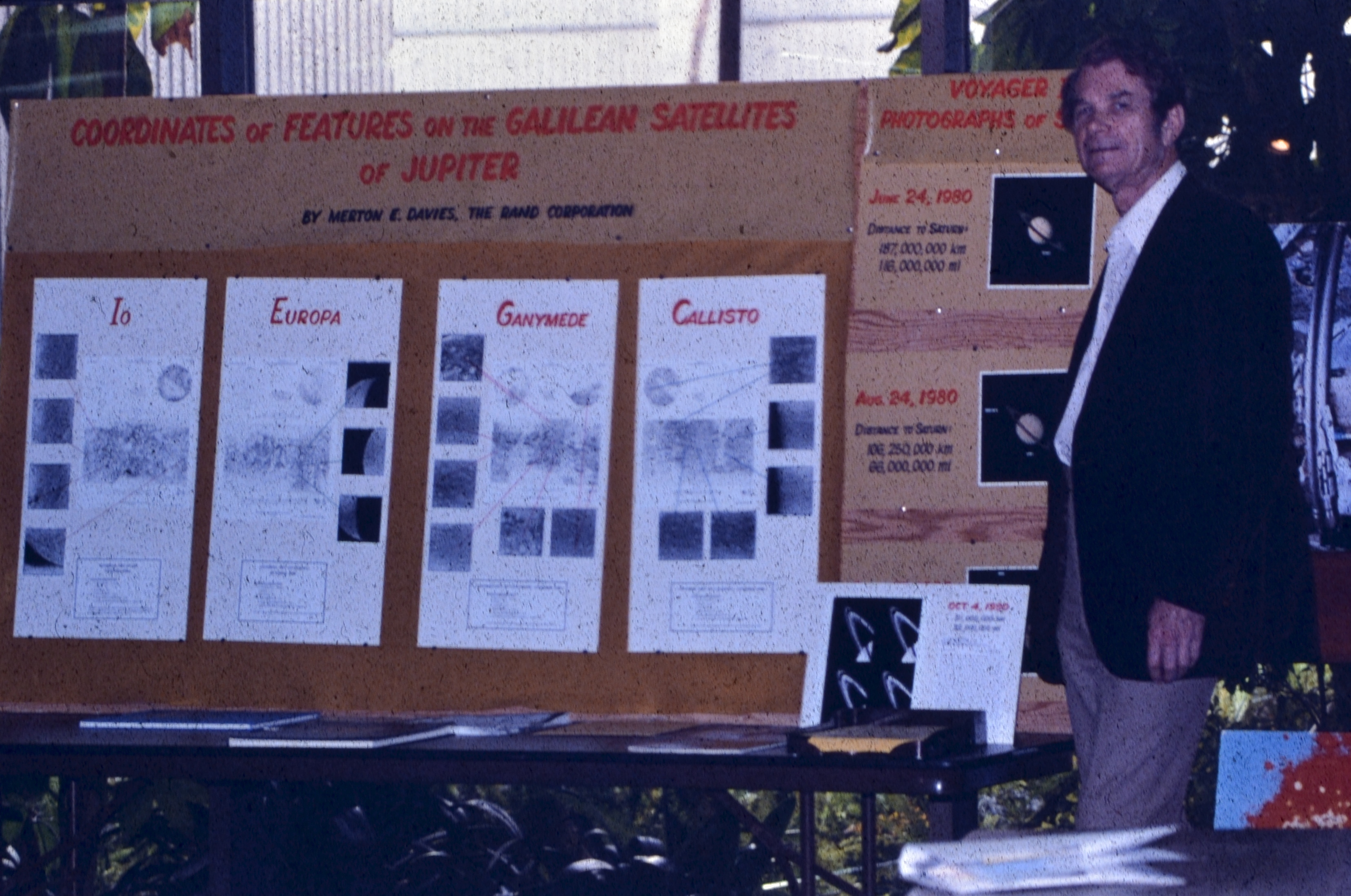 Merton E. Davies presents the cartographic coordinate system of the Gallilean moons of Jupiter.